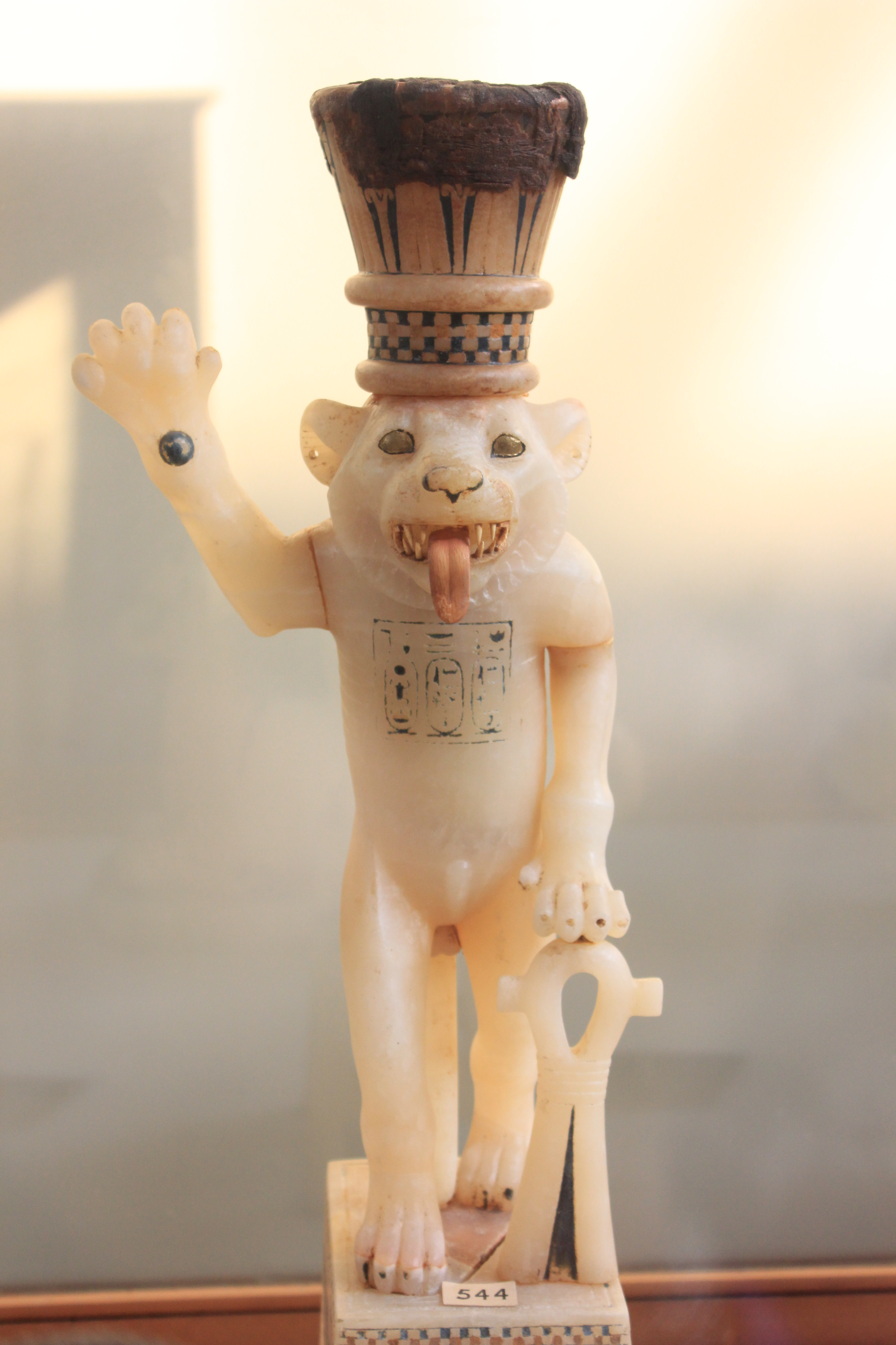 Calcite Bes Vase on Stand, Egyptian Museum in Cairo, Egypt.)